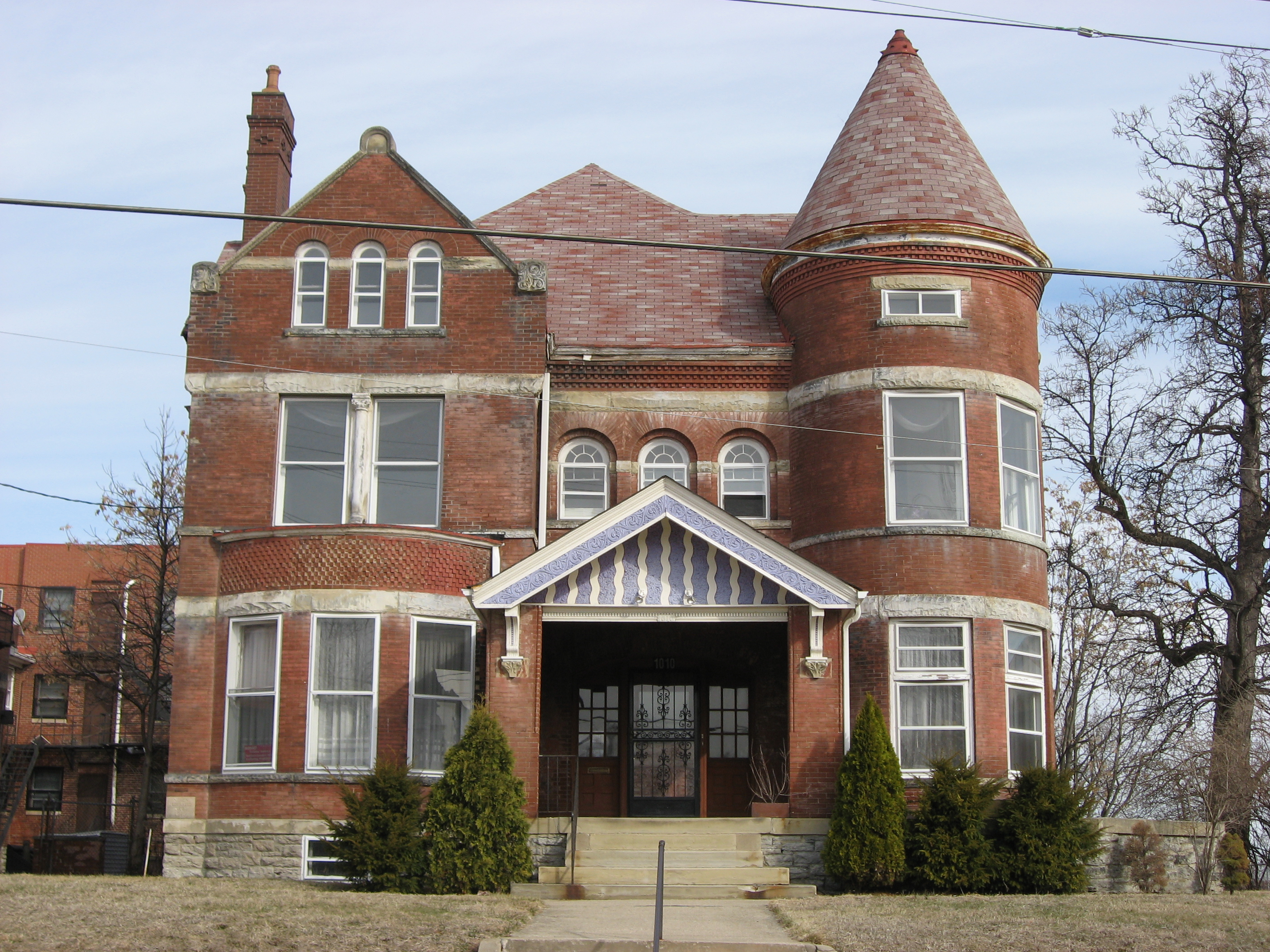 Front of the C. H. Burroughs House, located at 1010 E. Chapel Street in the Walnut Hills neighborhood of Cincinnati, Ohio, United States. Built in 1888 according to a design by Samuel Hannaford, it is listed on the National Register of Historic Places.